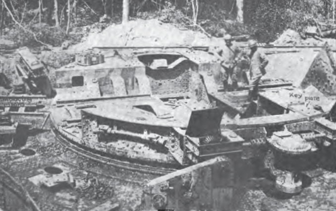 unfinished Bettungsschiessgerüst (Bedding platform) for 38 cm SK L/45 langer Max